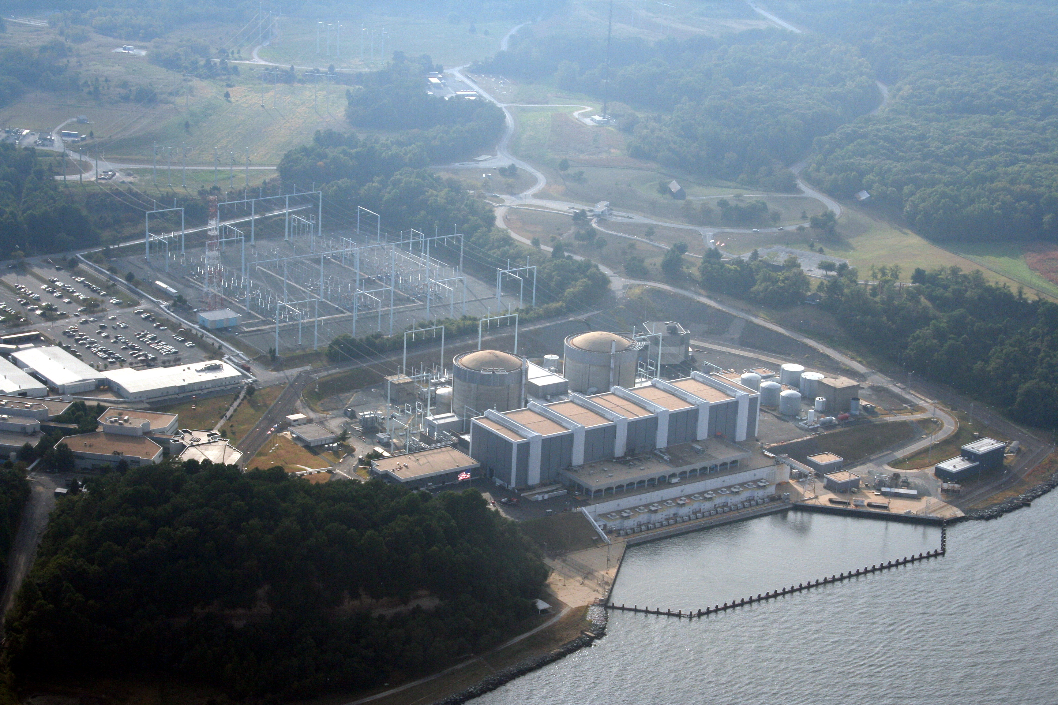 Aerial view of Calvert Cliffs Nuclear Power Plant, Calvert County, Maryland.